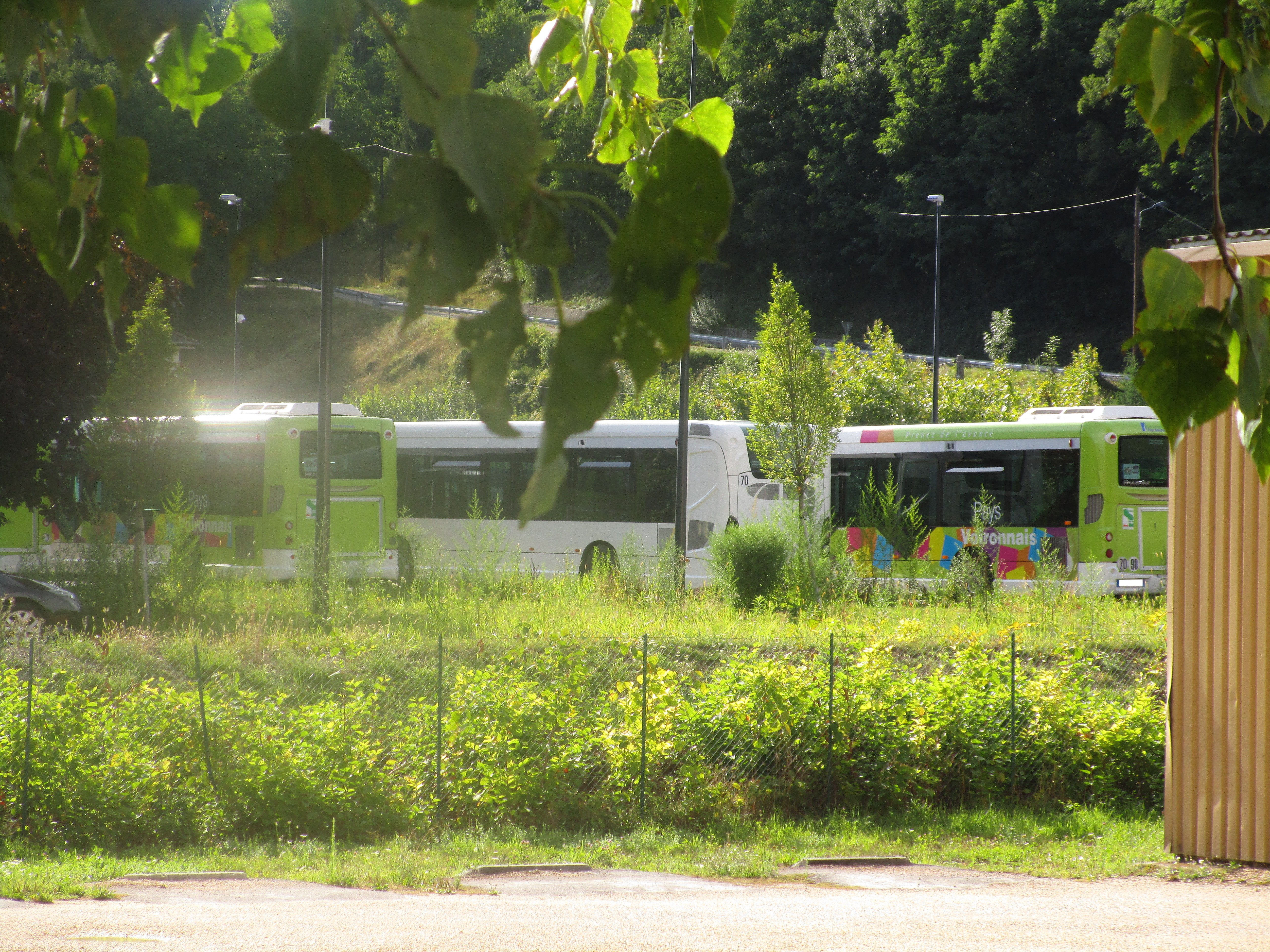 The yard of Transports du Pays voironnais, in the Avenue de la Patinière (Voiron, France), on August 10, 2017.